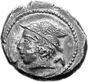 Etruria, Populonia. 3rd century BC. AR 5 Asses (3.30 g). Head of Turms left, wearing winged petasos; mark of value to right Blank. Vecchi 1-5 var. (unlisted obv. die); HN Italy 123; SNG ANS -; SNG Copenhagen 40; BMC 31. Good VF, toned. Extremely rare, only 12 examples recorded by Vecchi, 9 of which are in museums.